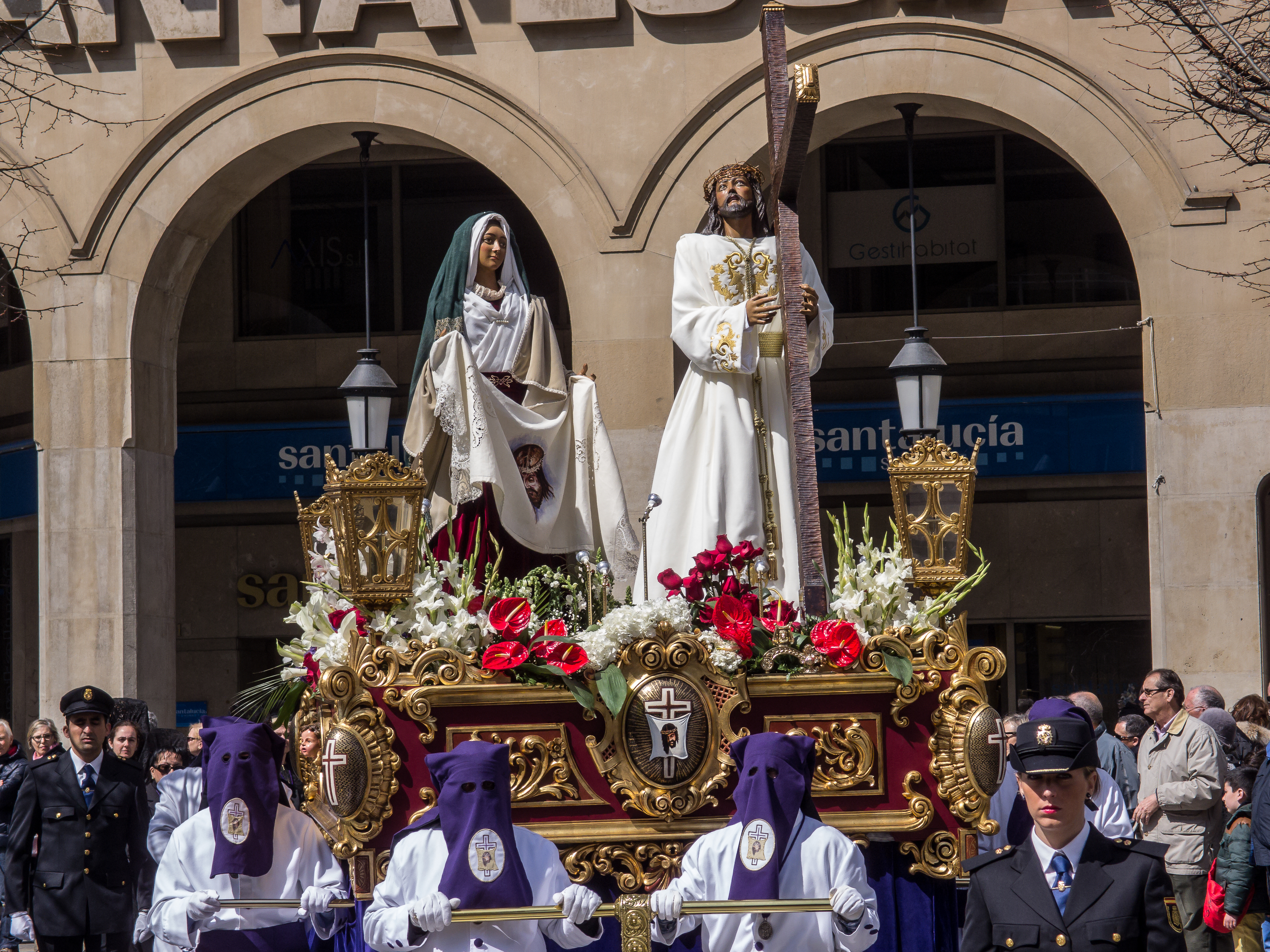 OLYMPUS DIGITAL CAMERA This is a photography of a Folklore festival in Spain (Wikidata id Q9075892).